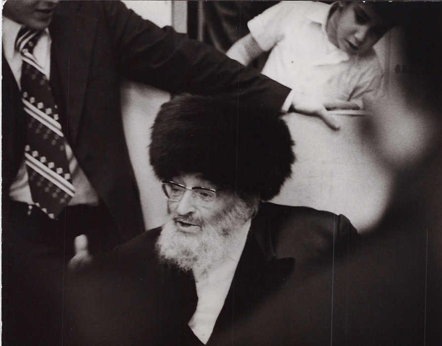 Rabbi Isaac Hutner at a Purim celebration around 1978.